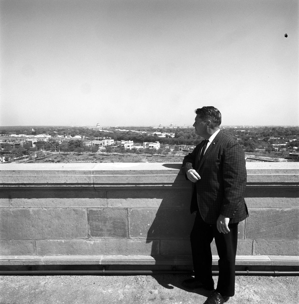 White House photographer, Captain Cecil Stoughton, stands on the roof of an unidentified building as White House Army Signal Agency / White House Communications Agency (WHASA / WHCA) staff set up communications equipment for First Lady Jacqueline Kennedy’s trip to India and Pakistan. (Accession Number: ST-117-7A-62)